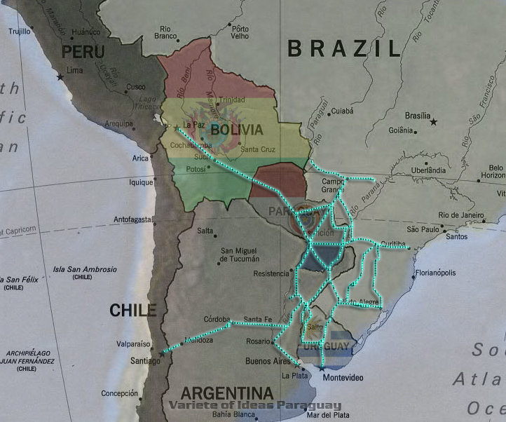 Urupabol train project